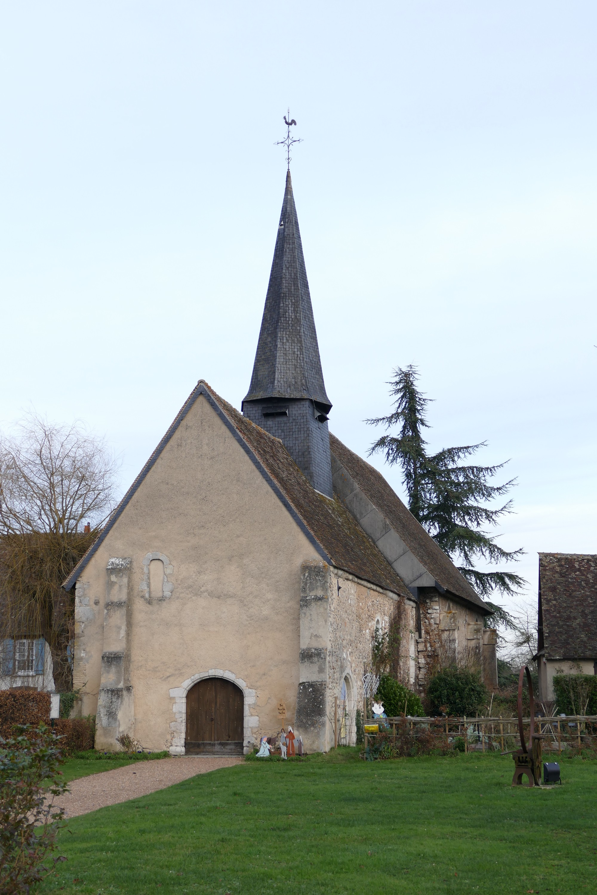 Our Lady's church in Croth (Eure, Normandie, France).